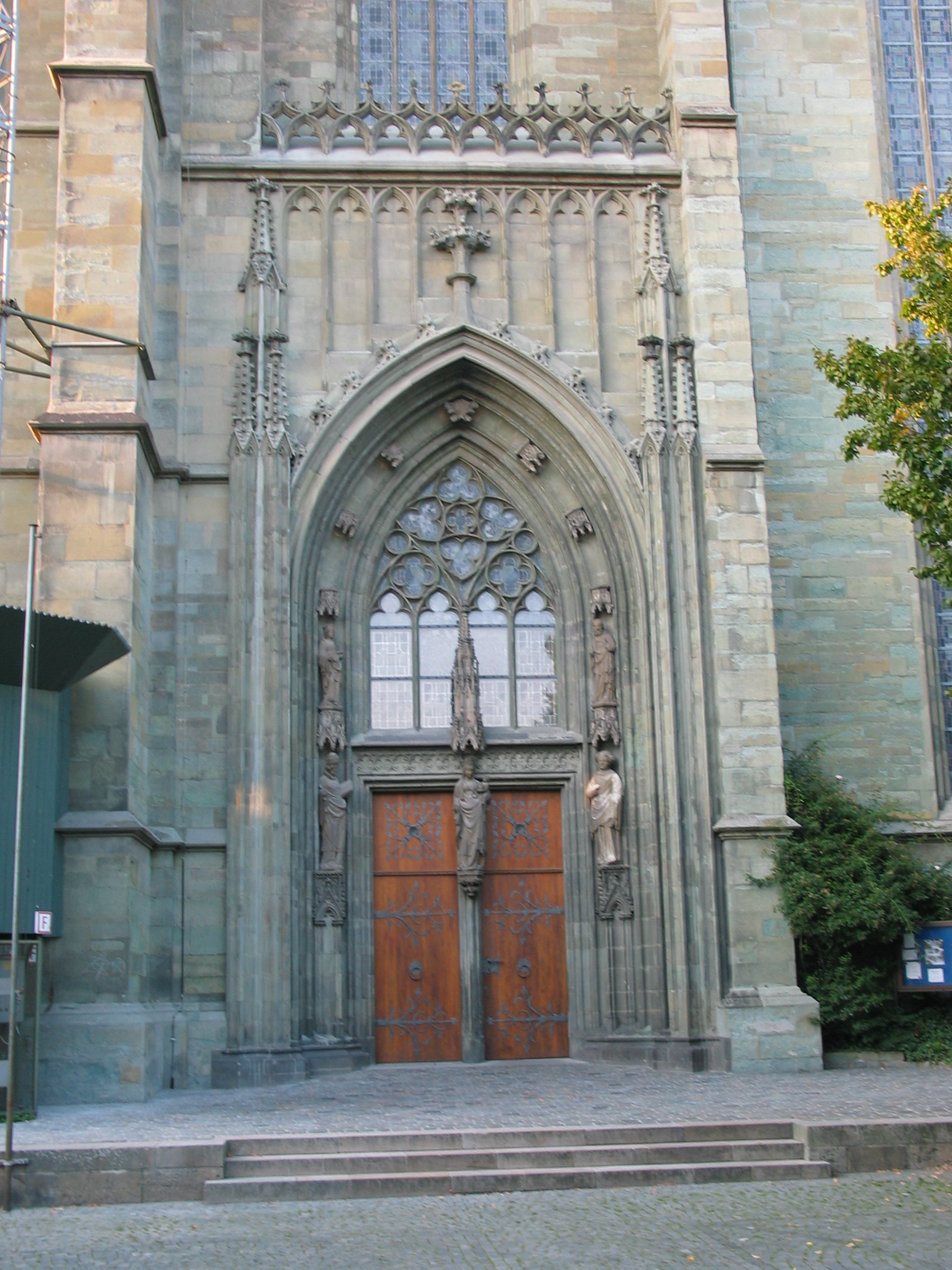 The main entrance of the Wiesenkirche in Soest, Germany.